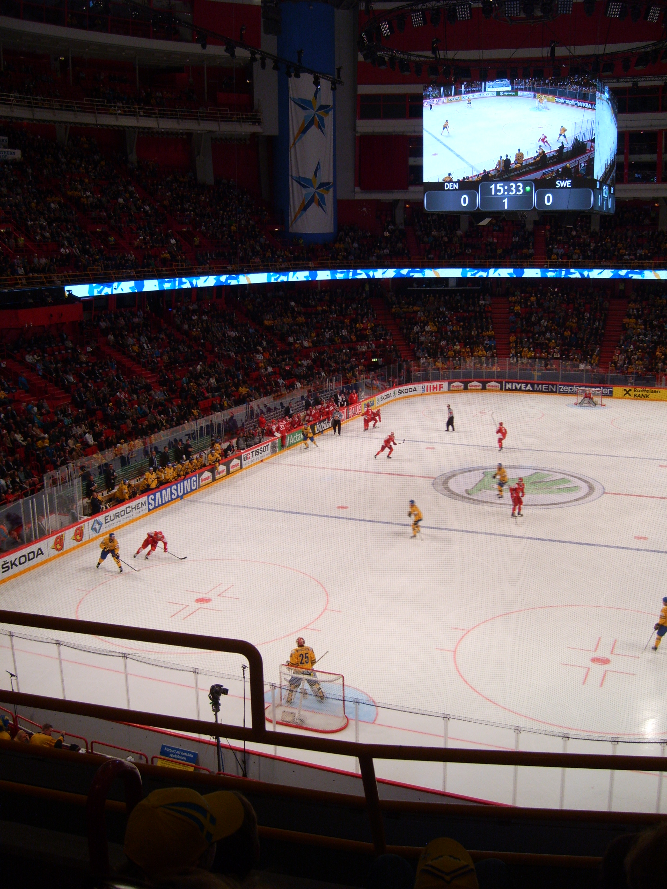 Sweden vs Denmark during 2013 IIHF World Championship.